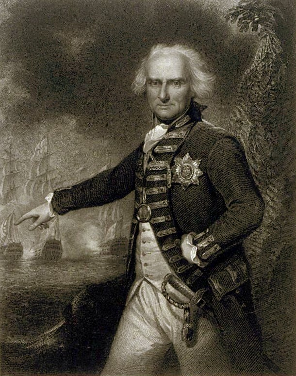 Sir Alexander Hood, 1. Viscount Bridport of Cricket St. Thomas (1726–1814), britischer Admiral